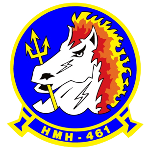 HMH-461 Official Squadron Patch